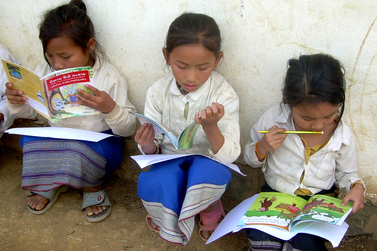 Three Lao girls sit outside their school, each absorbed in reading a book. This photo was taken after a rural school book party by Big Brother Mouse, a publishing and literacy project in Laos, which provides many children with their very first books.